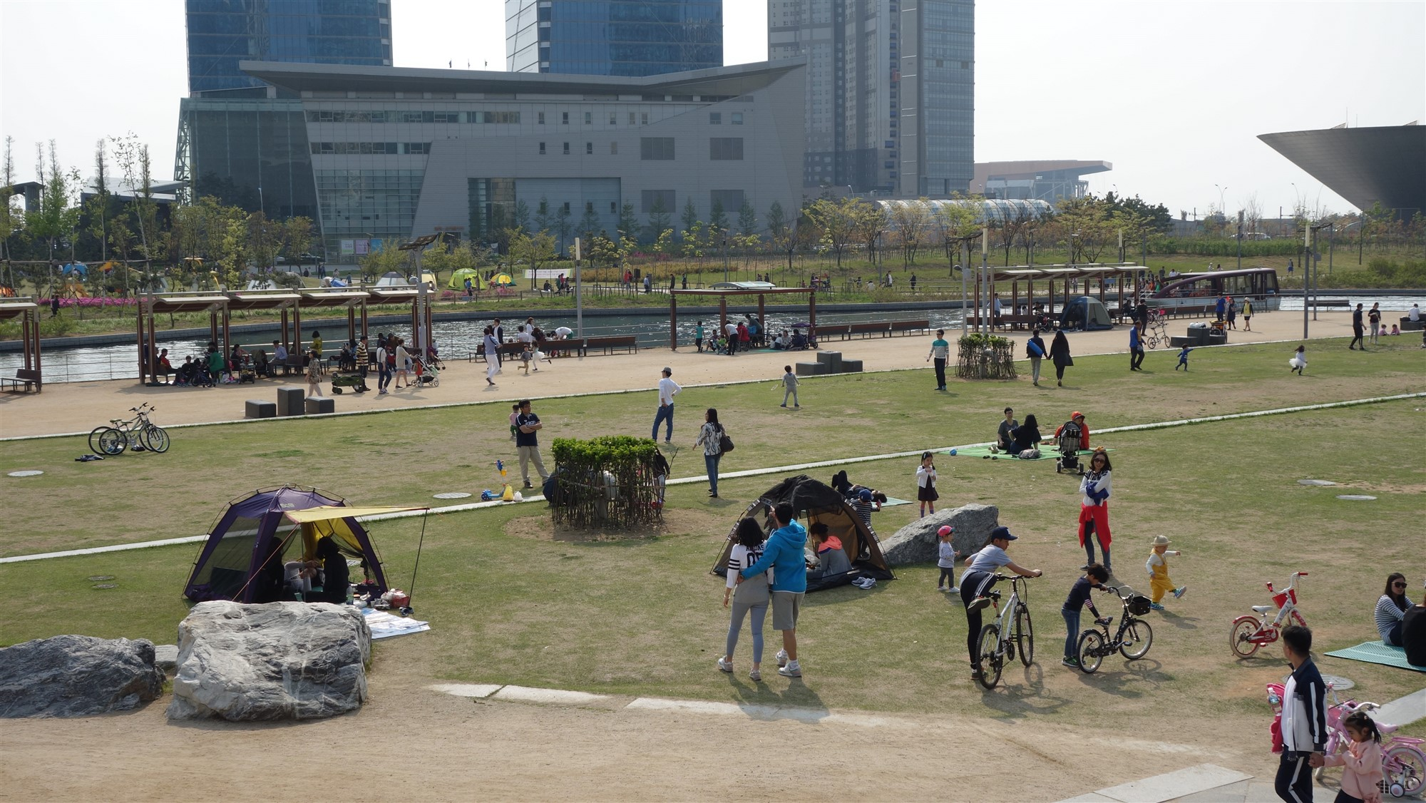 The north-side lawn of Central Park, Songdo IBD, Incheon, Korea